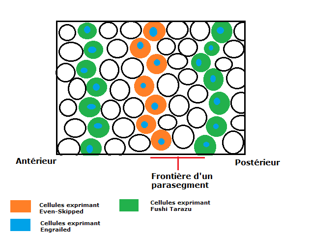 Les gènes Even-Skipped et Fushi Tarazu activent l'expression du gène de polarité segmentaire, Engrailed dans les cellules formant les frontières d'un parasegment chez la Drosophile.